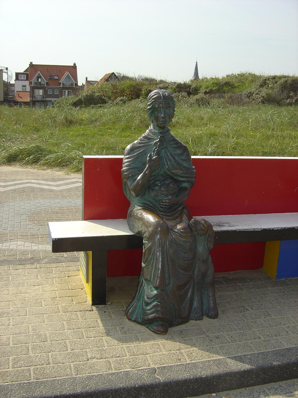 Modern statue of pre-Celtic fertility and mothergoddess Nehalennia, bronze, incorparated in the "Mondriaanbank" by Guido Metsers 1989, located Boulevard van Schagen Domburg view towards the south